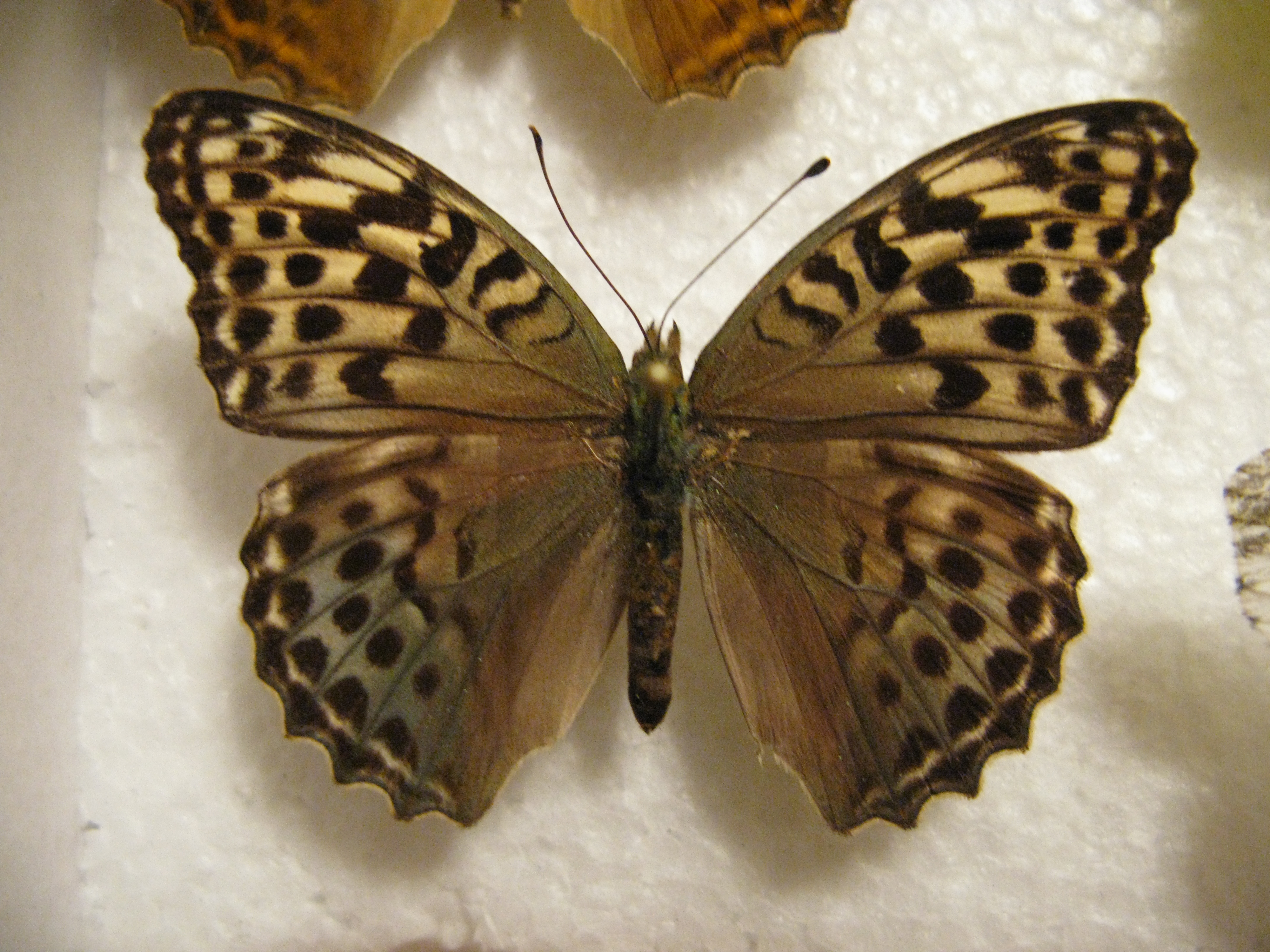 Argynnis paphia f.valesina female